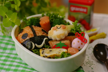 A Kyaraben depicting several insects, including a ladybug